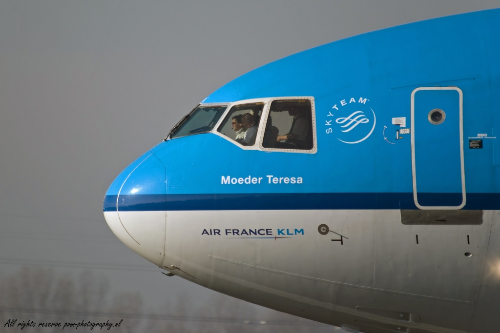 Zooming in with 500mm McDonnell Douglas MD11 Amsterdam schiphol [AMS / EHAM] 30-01-2009